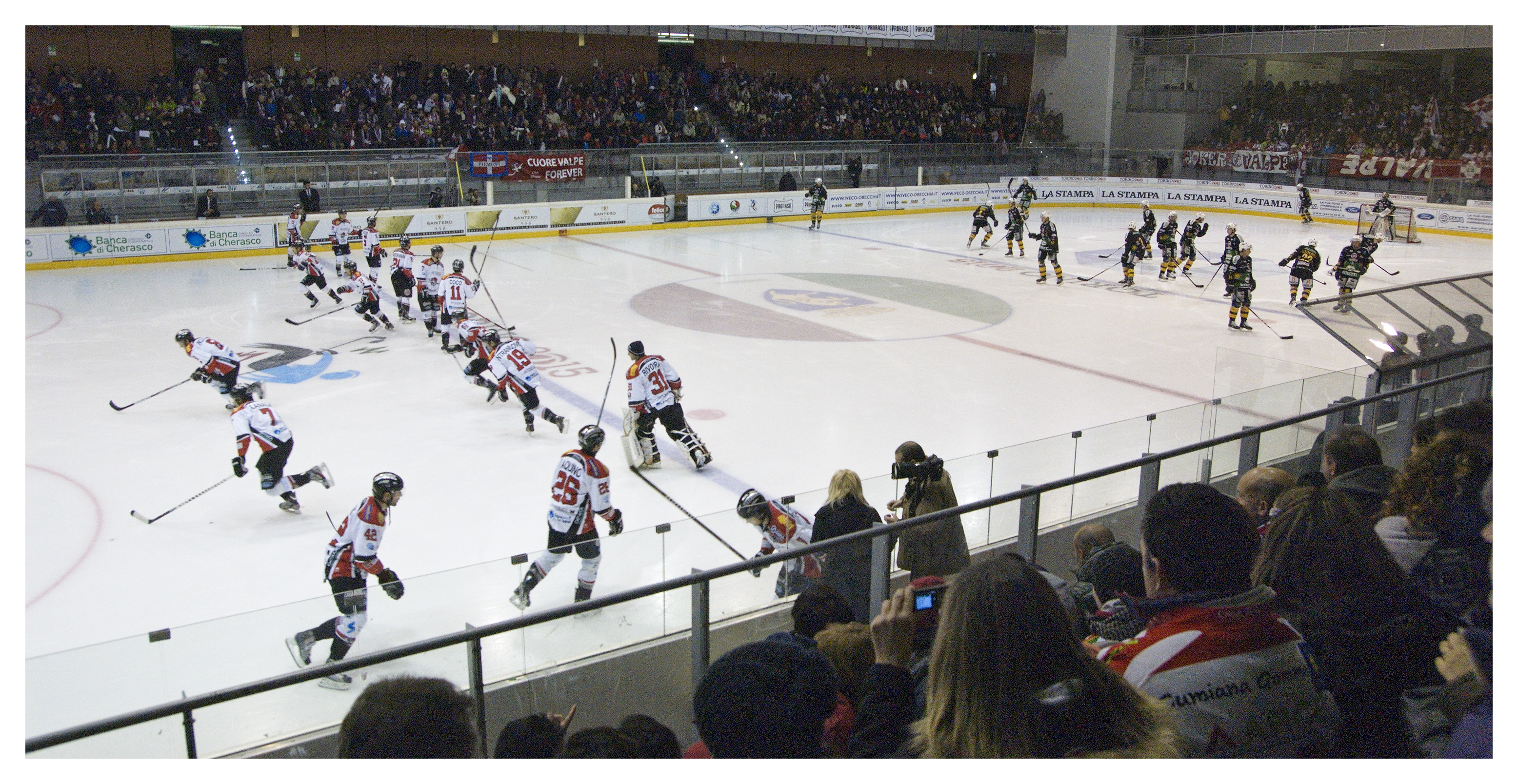 2012-2013 Coppa Italia semi-final between HC Valpellice and HC Val Pusteria played in Torino on 12 January 2013